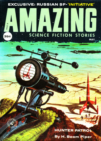 Cover of Amazing Stories, May 1959